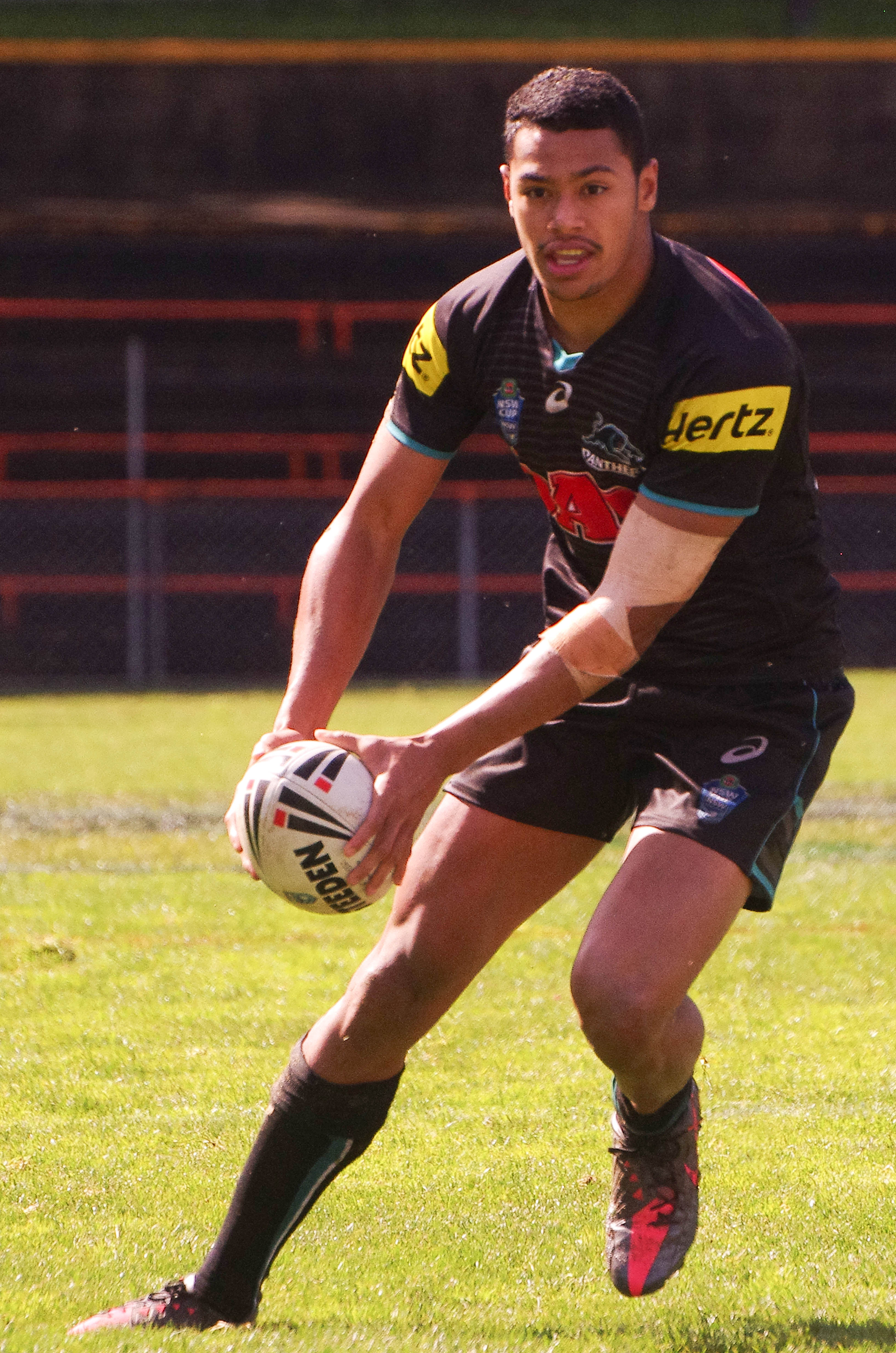 Waqa Blake